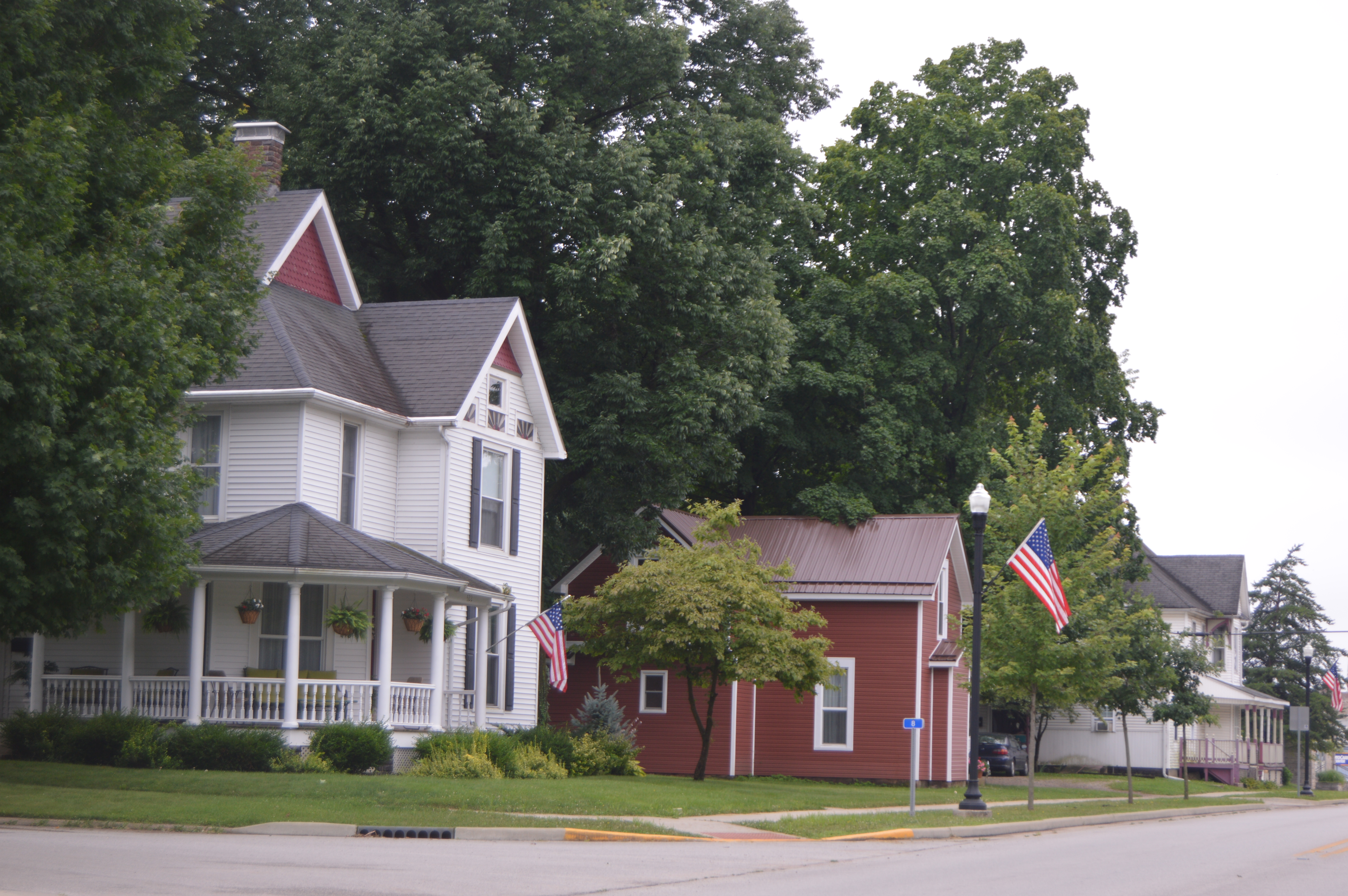 Houses on the southern side of Liberty Street (U.S. Route 136) west of the Sixth Street intersection in Covington, Indiana, United States. This block is part of the Covington Residential Historic District, a historic district that is listed on the National Register of Historic Places.